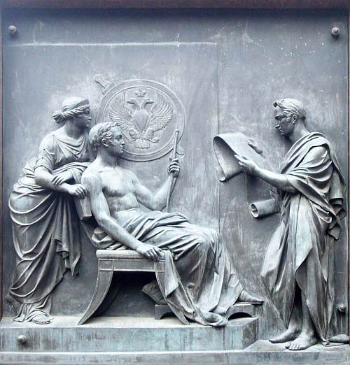 Горельеф памятника Карамзину